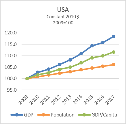 Relative growth of per capita GDP, population, and total GDP for the USA for the period 2009 - 17. Each line on the chart starts at 100 for the year 2009, so that the percentage change of each over time can be read directly. For example, the chart shows that change in per capita GDP over the period 2009 - 2016 was about 10%.